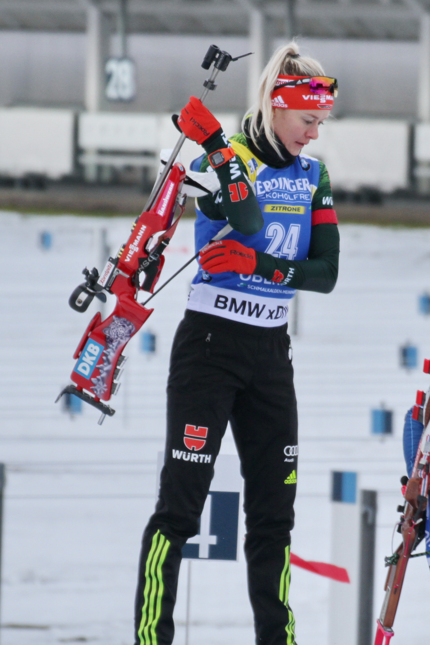 2018 Oberhof Biathlon World Cup - Pursuit Women